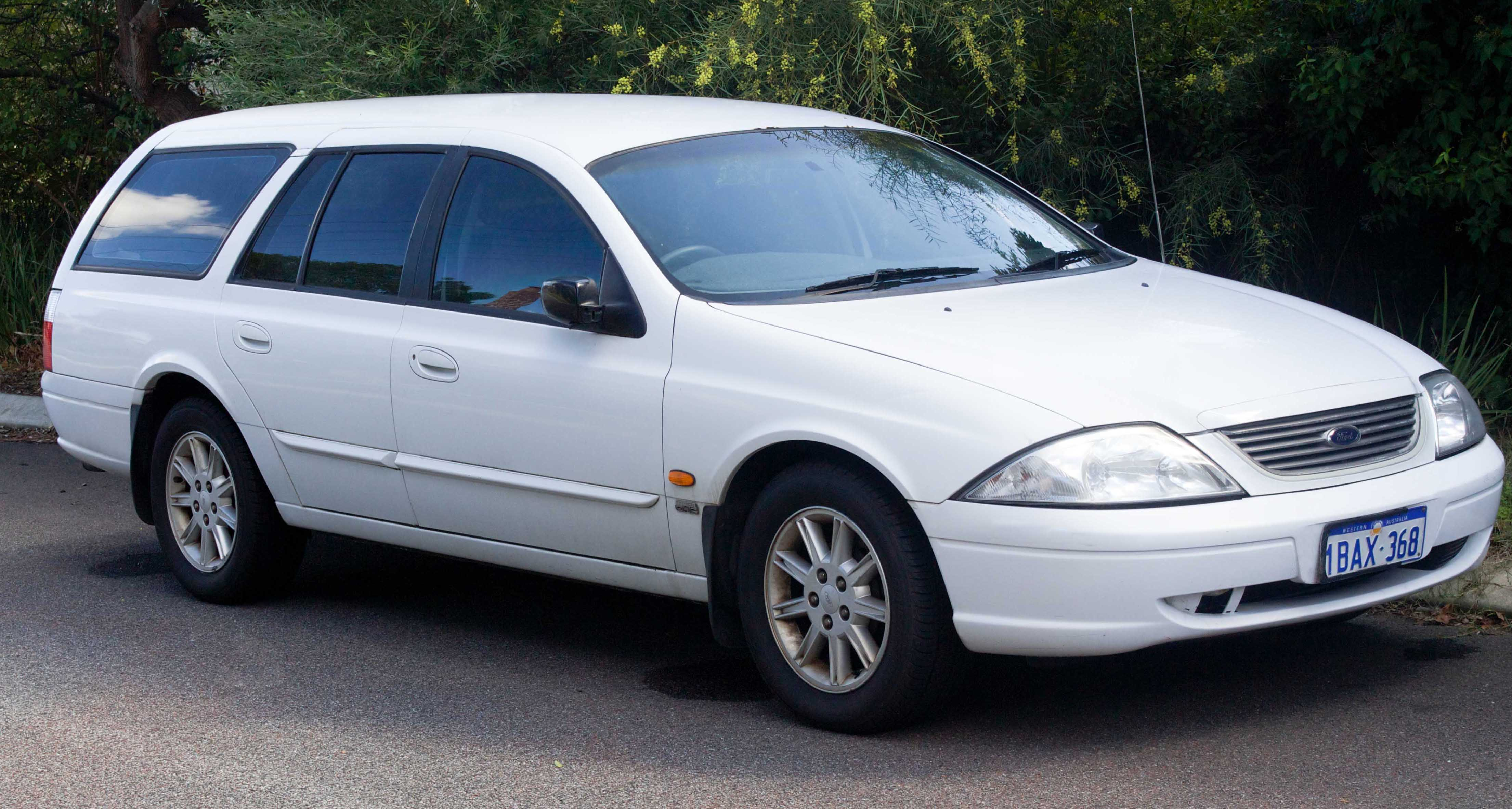 2000-2001 Ford Falcon (AU II) Futura station wagon. Photographed in Nedlands, Western Australia, Australia